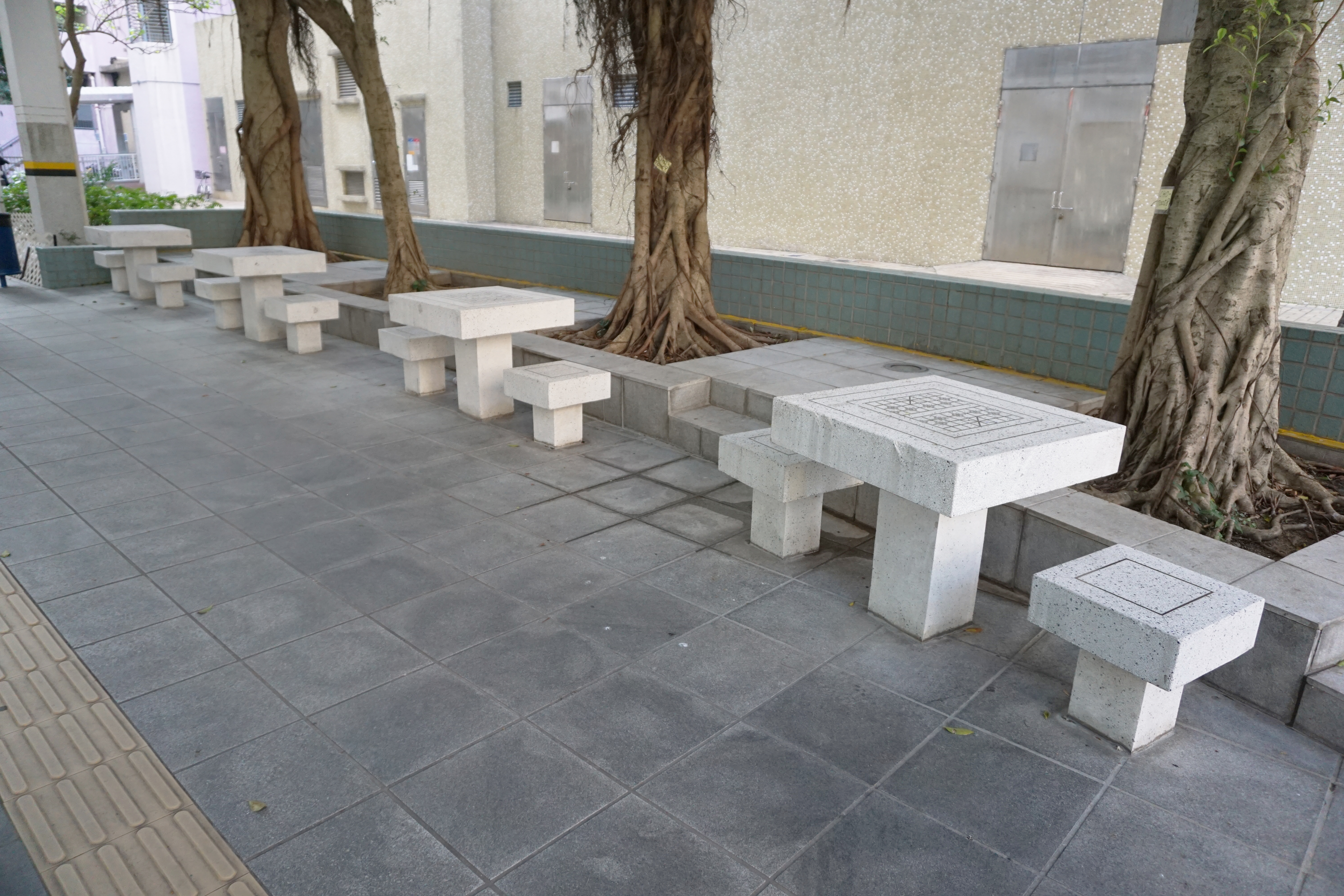 Chung On Estate in Ma On Shan, Hong Kong.